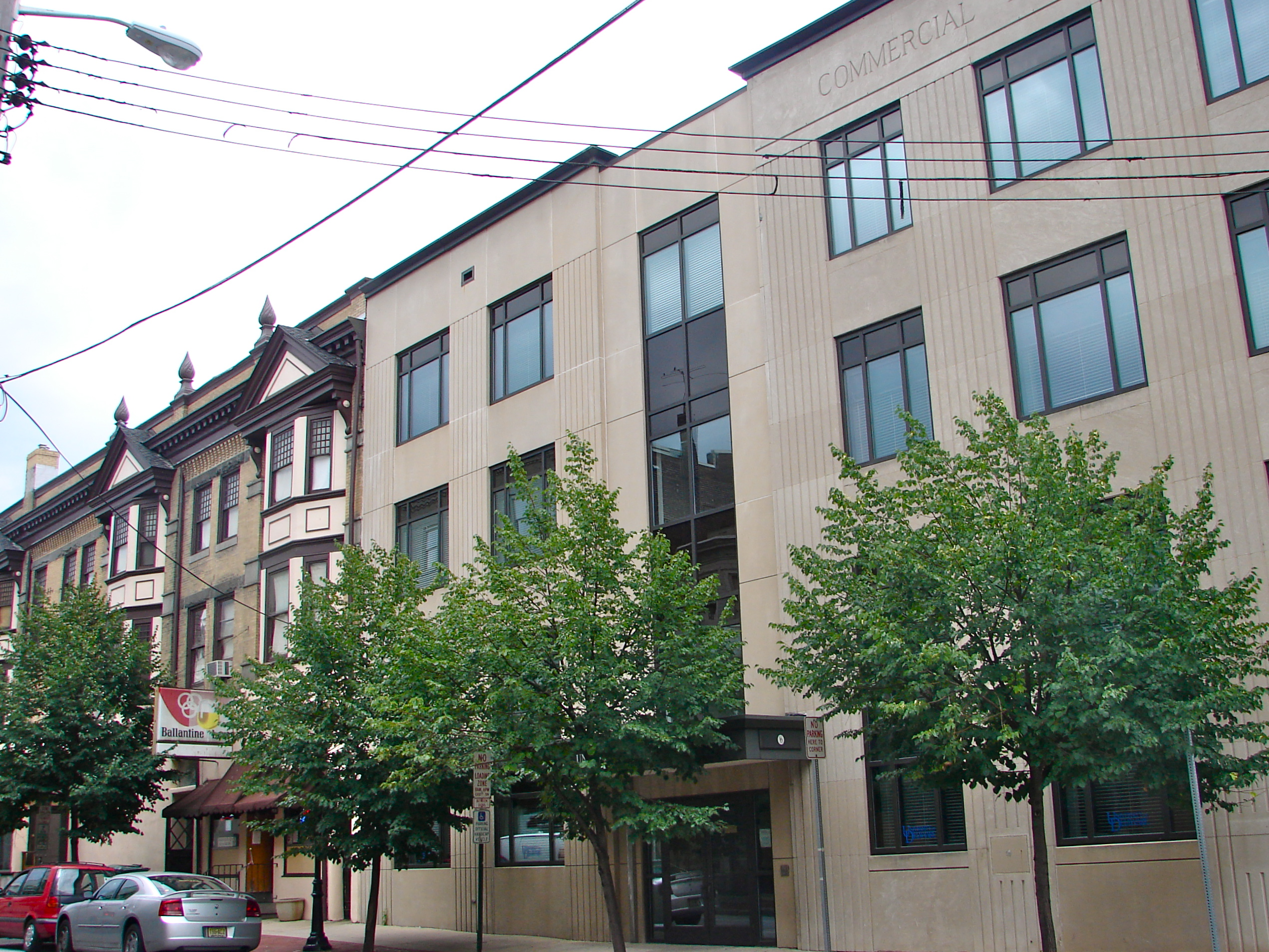 Former site of the Charles Gray Printing Shop, on the NRHP since January 30, 1985, at 11 E. 8th St., Wilmington, Delaware. Two nice old buildings next to the bar were torn down and replaced by an office of the University of Delaware. In an oddity, the printing shop has moved to the West 9th Street Commercial Historic District in Wilmington - see its pic